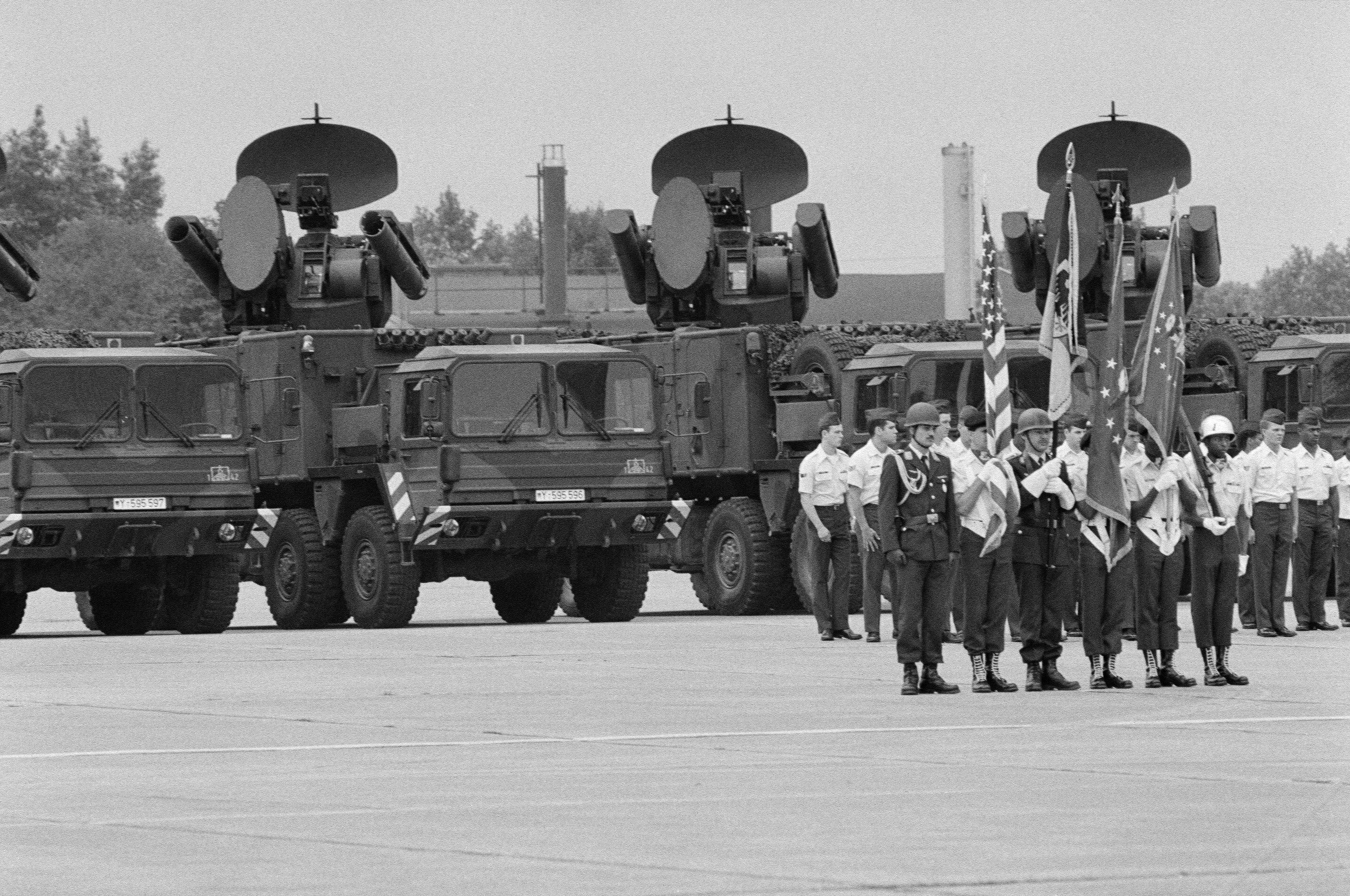 MAN 8x8 cargo trucks with the Roland mobile anti-aircraft weapon system mounted on top line the field during a presentation of the colors. The missile systems are assigned to a West German air defense unit.